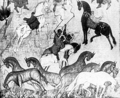 Oriental-type horses depicted on a Novgorod icon.